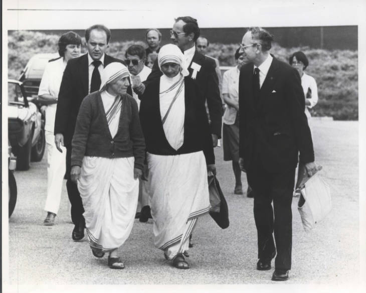 Mother Teresa visited Walsh on June 23, 1982. This photograph was captured by Norm Kutz and shows Mother Teresa walking with Walsh's third president, Br. Francis Blouin.